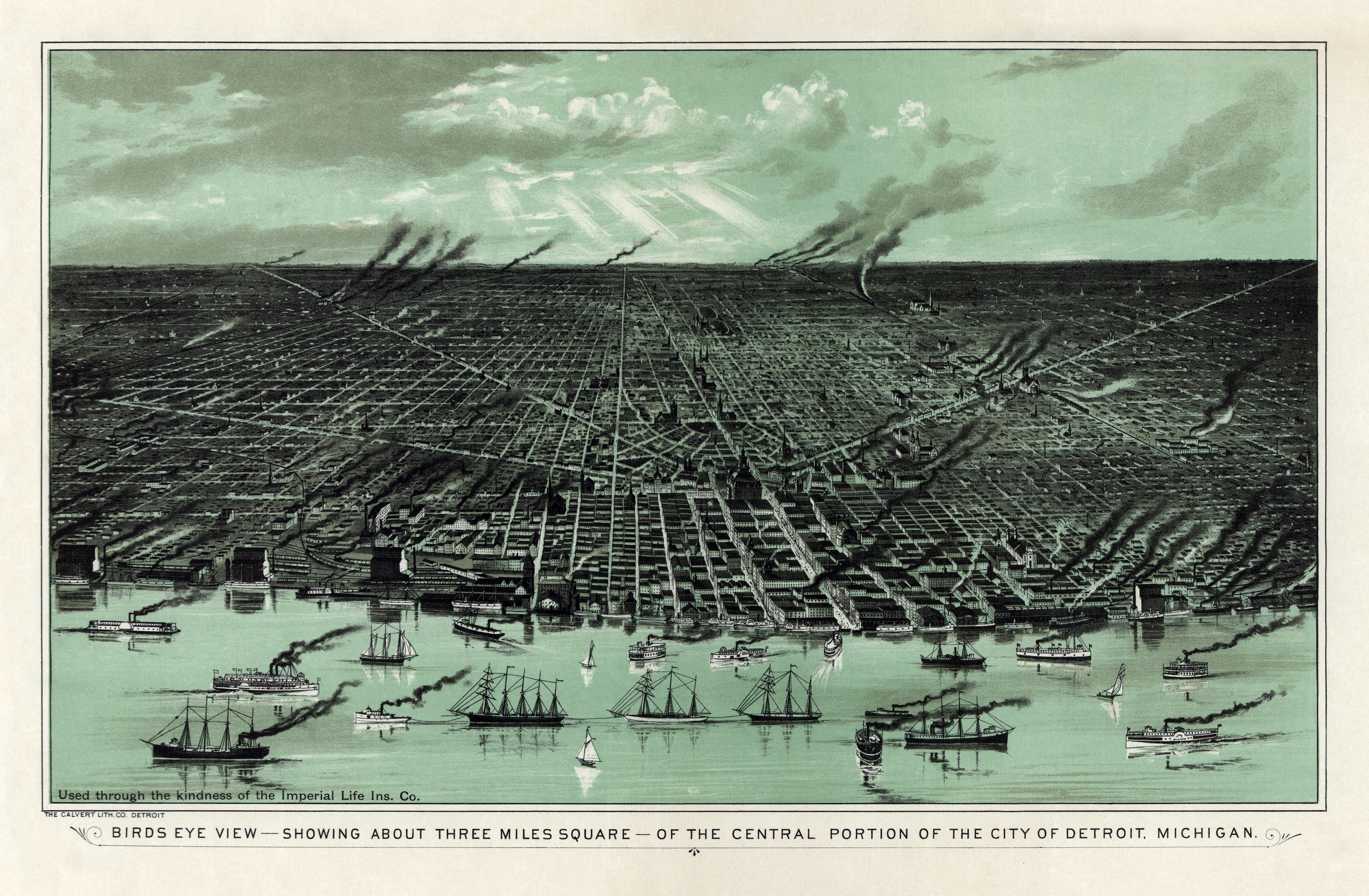 Birds eye view--showing about three miles square--of the central portion of the city of Detroit, Michigan. Calvert Lith Co. Copyright stamp indicates this was made by 1889.